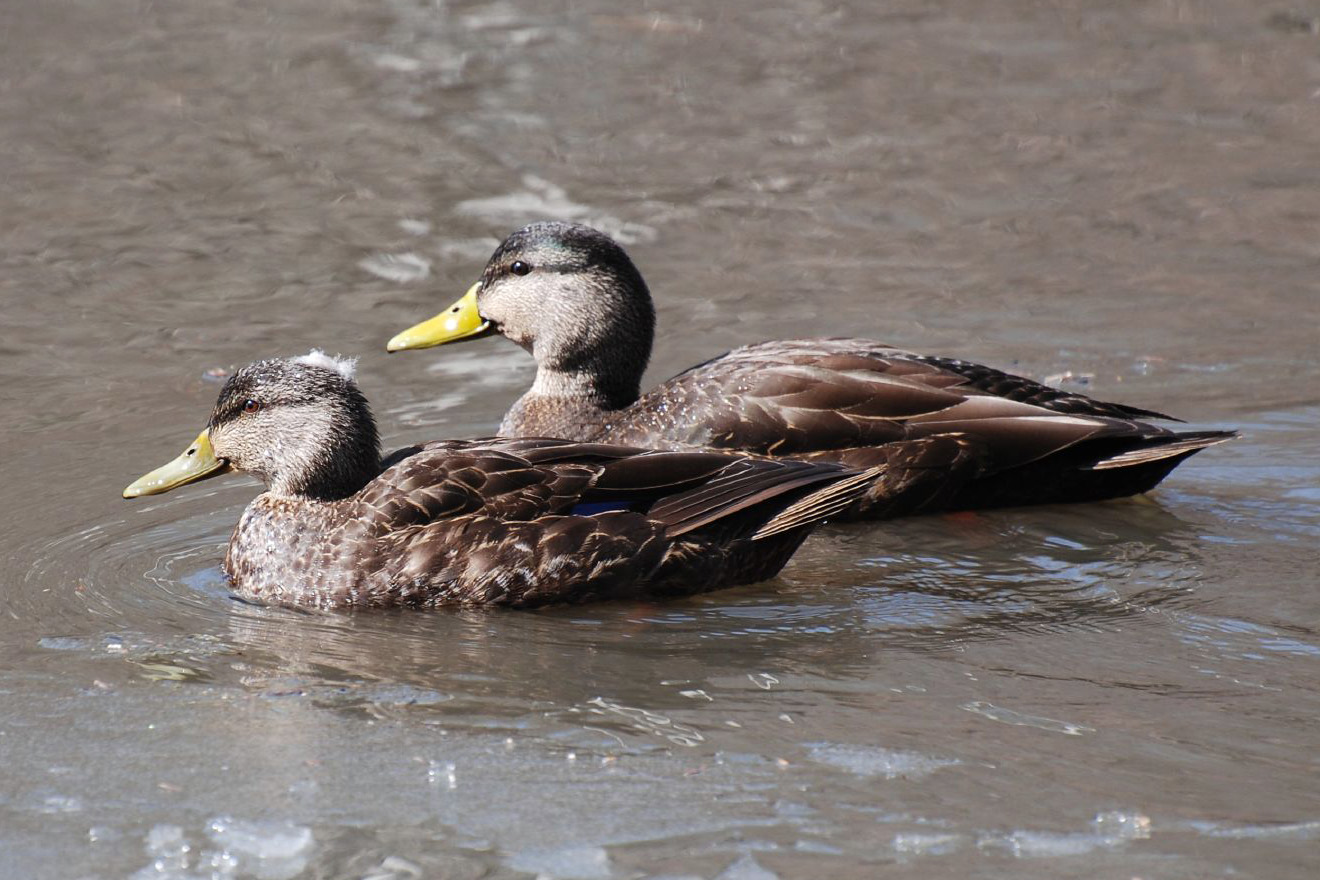 American Black Ducks (Anas rubripes) in Tibbetts Brookl Park, Yonkers, New York.